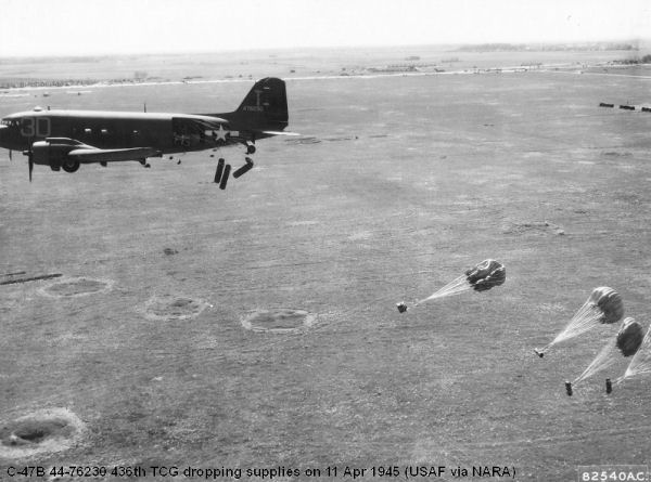 C-47s of the 436th Troop Carrier Group, World War II Source: "History and Units of the United States Air Forces In Europe", CD-ROM compiled by GHJ Scharringa, European Aviation Histoical Society, 2004. Image source listed as United States Army Air Forces via National Archives